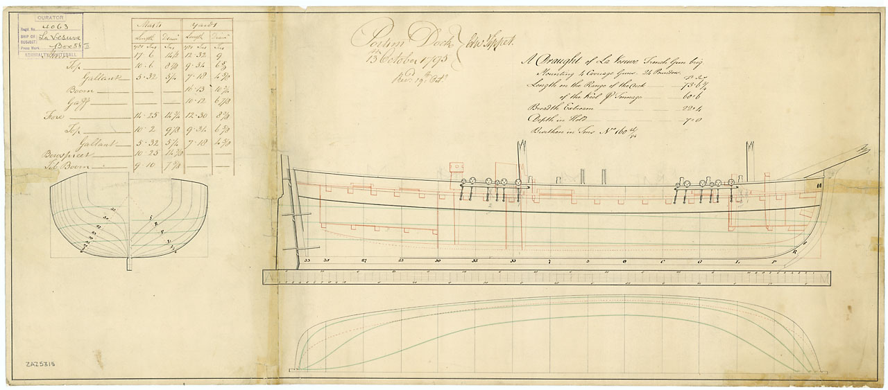 VESUVE FL.1795 [FRENCH] lines & profile